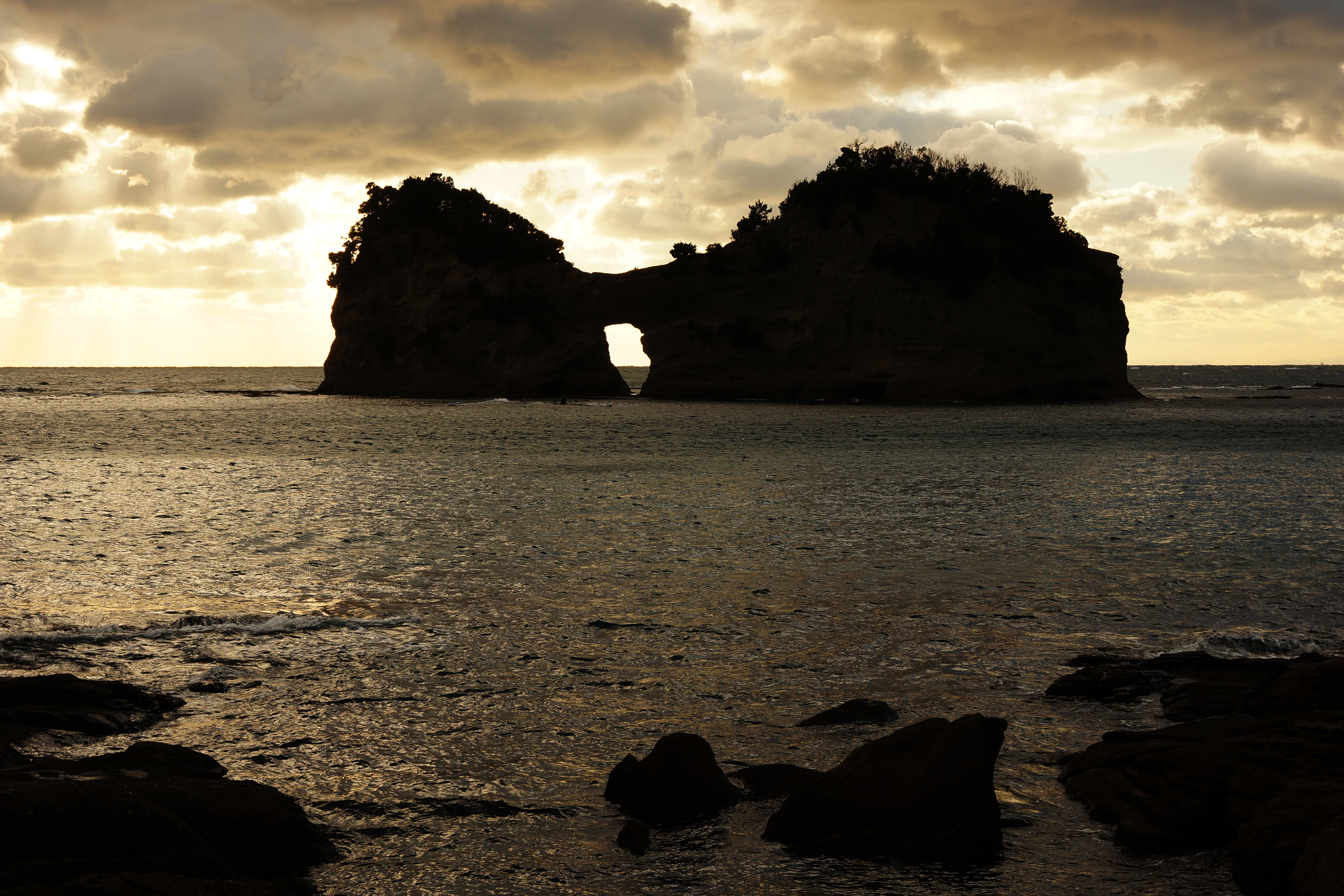 Engetsu Island in Shirahama, Wakayama prefecture, Japan.